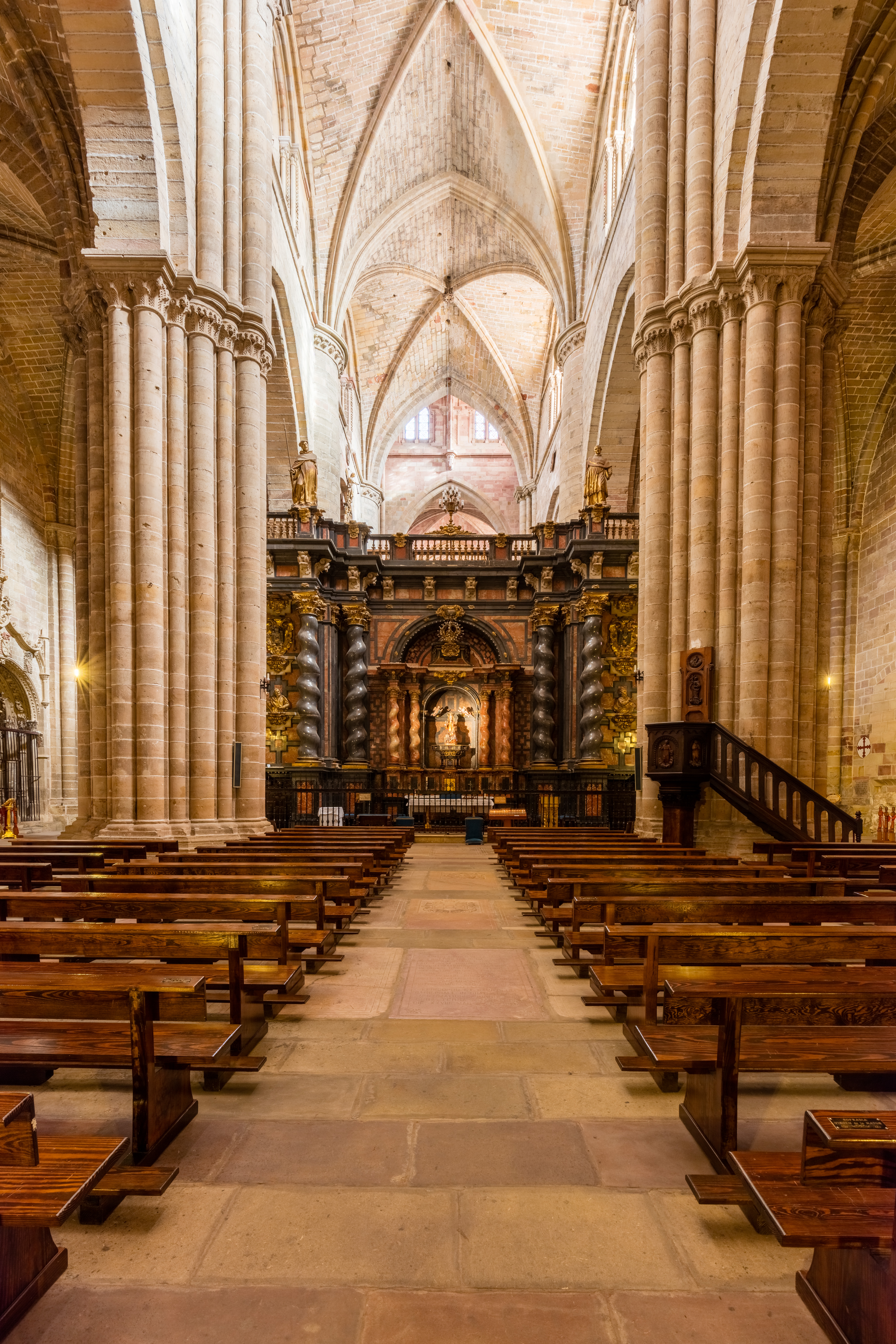 Cathedral of Santa María, Sigüenza, Spain